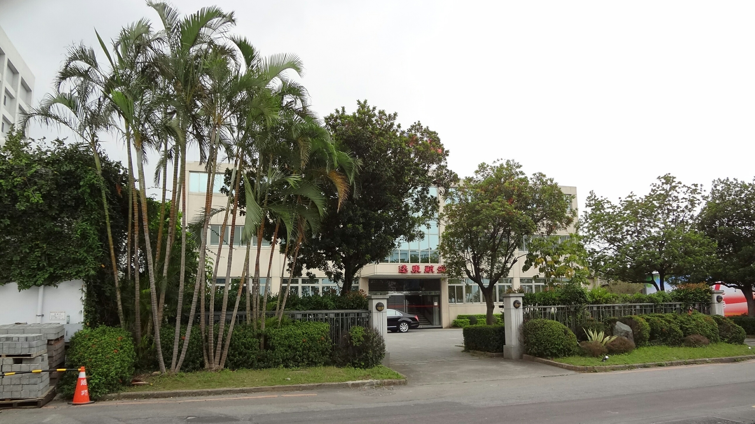 Far Eastern Air Transport headquarters - FAT Building - Number 5, Alley 123, Lane 405, Dunhua North Road, Songshan District, Taipei City.